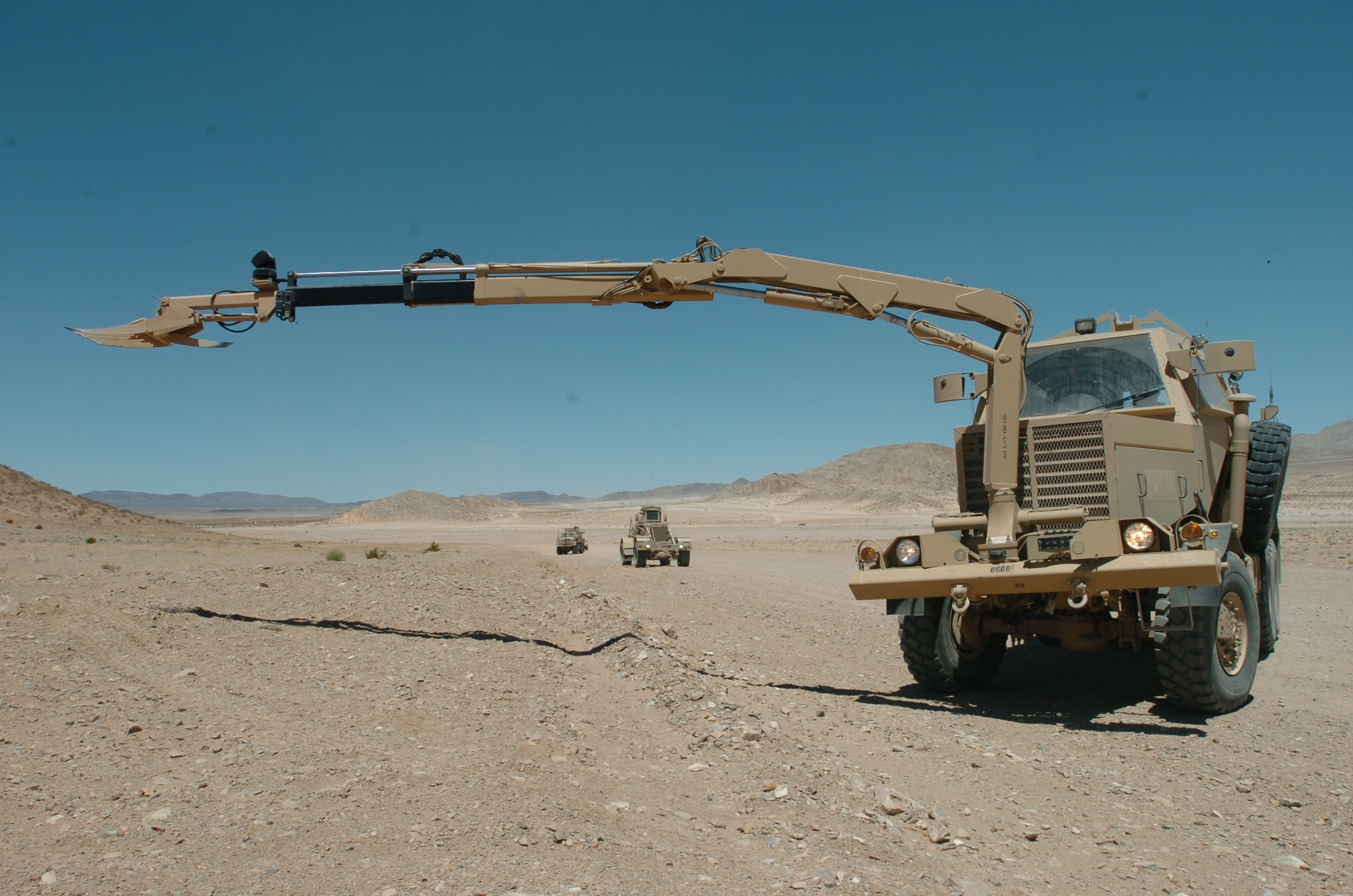 A soldier with the 323rd Engineer Company manuevers the swing arm of a Buffalo vehicle into position to check the location of a possible Improvised Explosive Device while conducting route clearance training here recently at Fort Irwin, Calif.